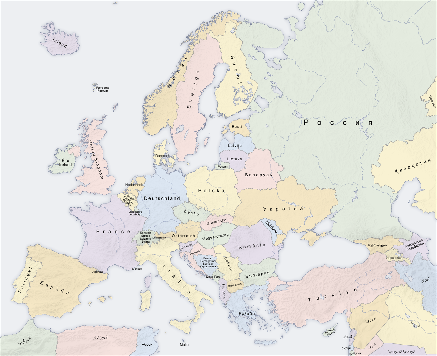 Europe countries map in local languages